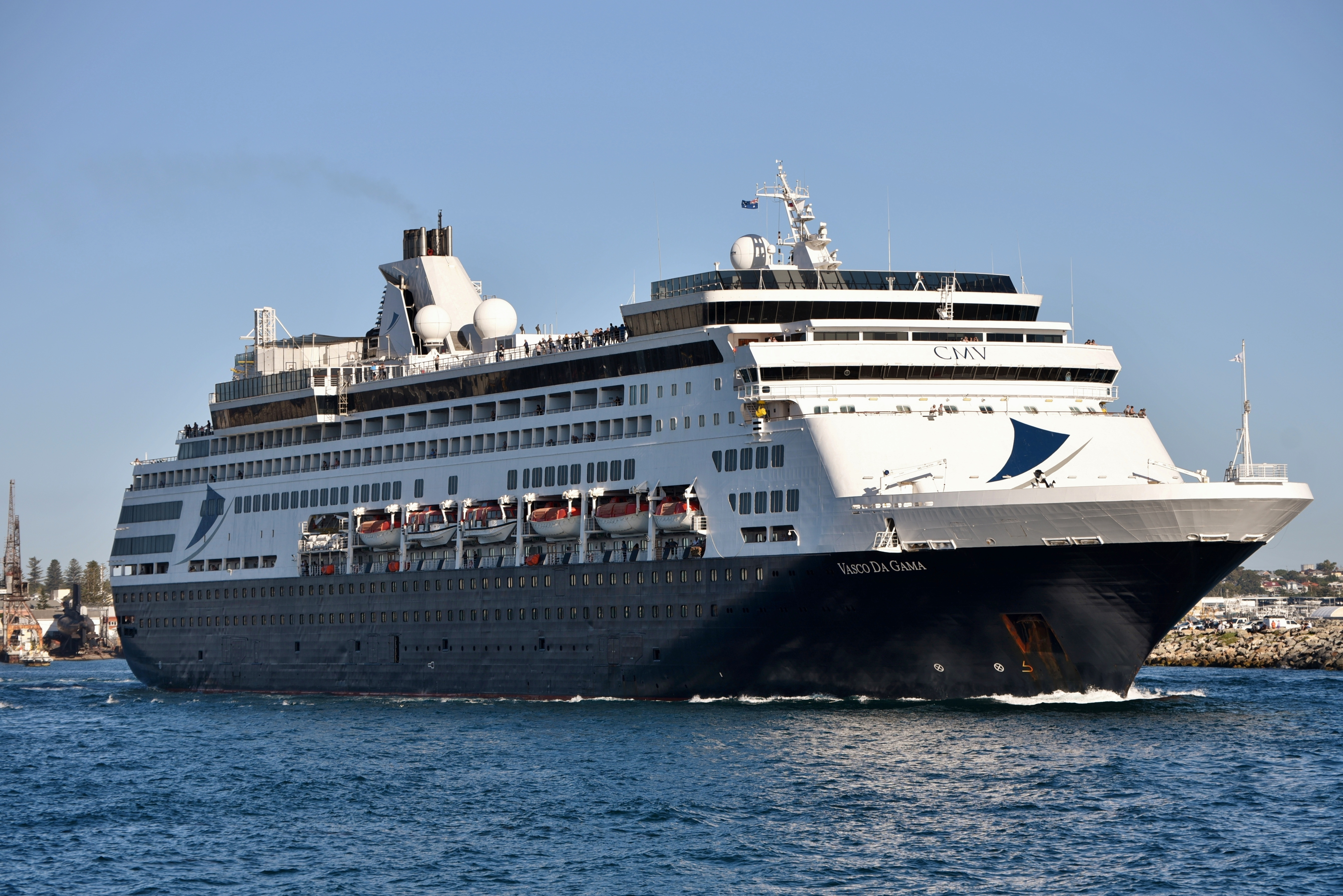 Cruise & Maritime Voyages cruise ship Vasco da Gama departing from Fremantle Harbour, Western Australia, on voyage CMV-V012, a 5 Night Esperance & Albany Cruise